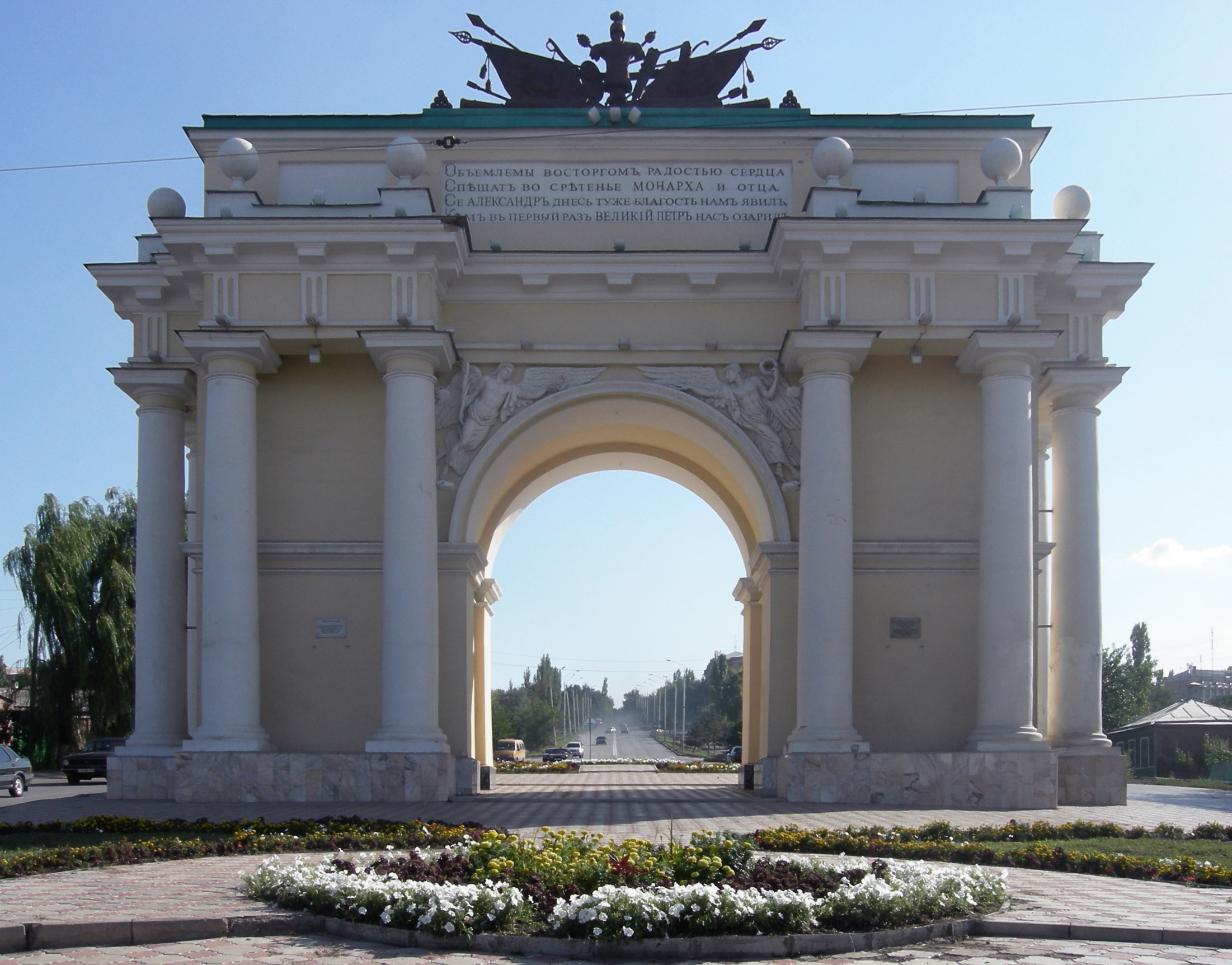 Attraction_of_Novocherkassk